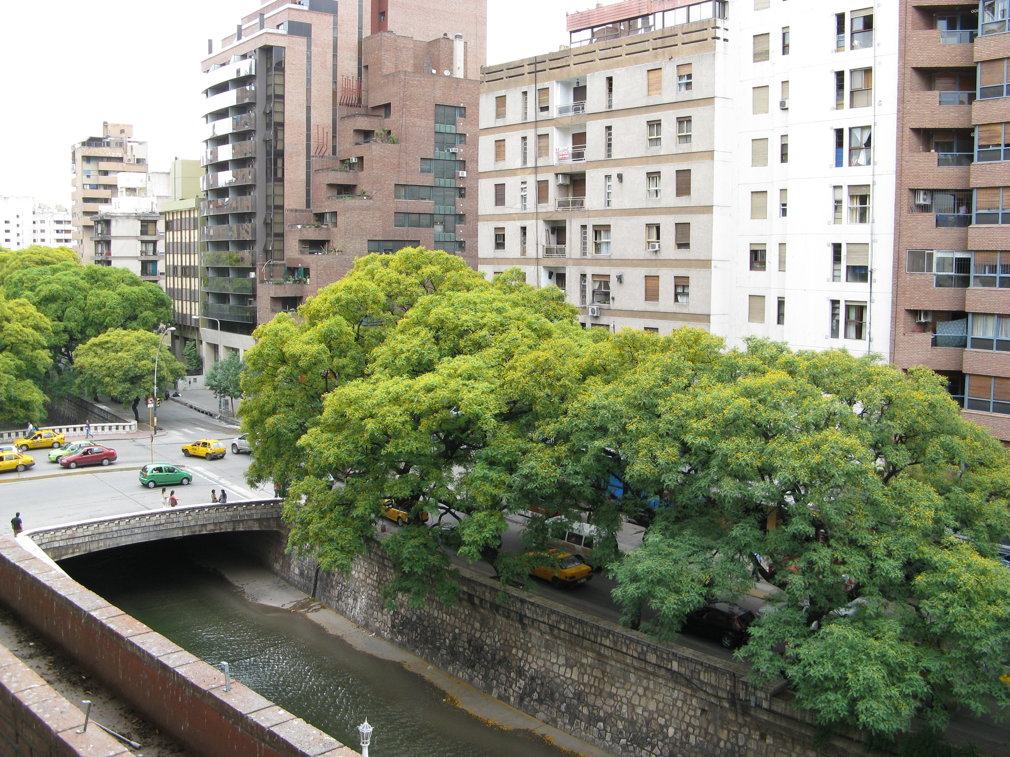 Bridges on La Cañada (The Glen) in Cordoba, Argentina.